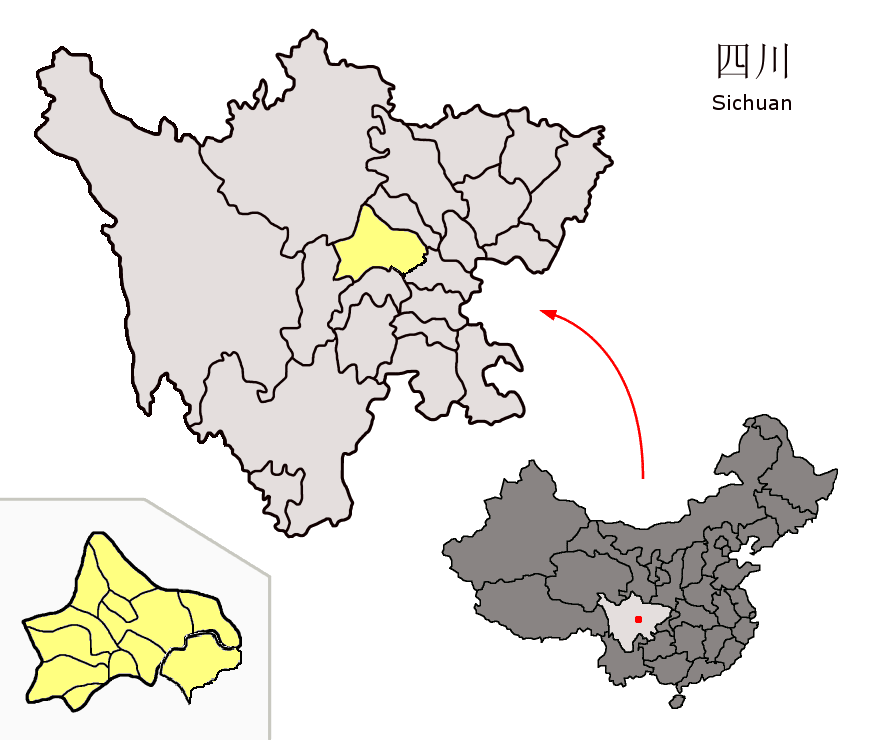 Location map of Chengdu Prefecture (yellow) — within Sichuan Province of southwestern China. Map drawn in september 2007 using various sources, mainly : Sichuan province administrative regions GIS data: 1:1M, County level, 1990 Sichuan Counties map from